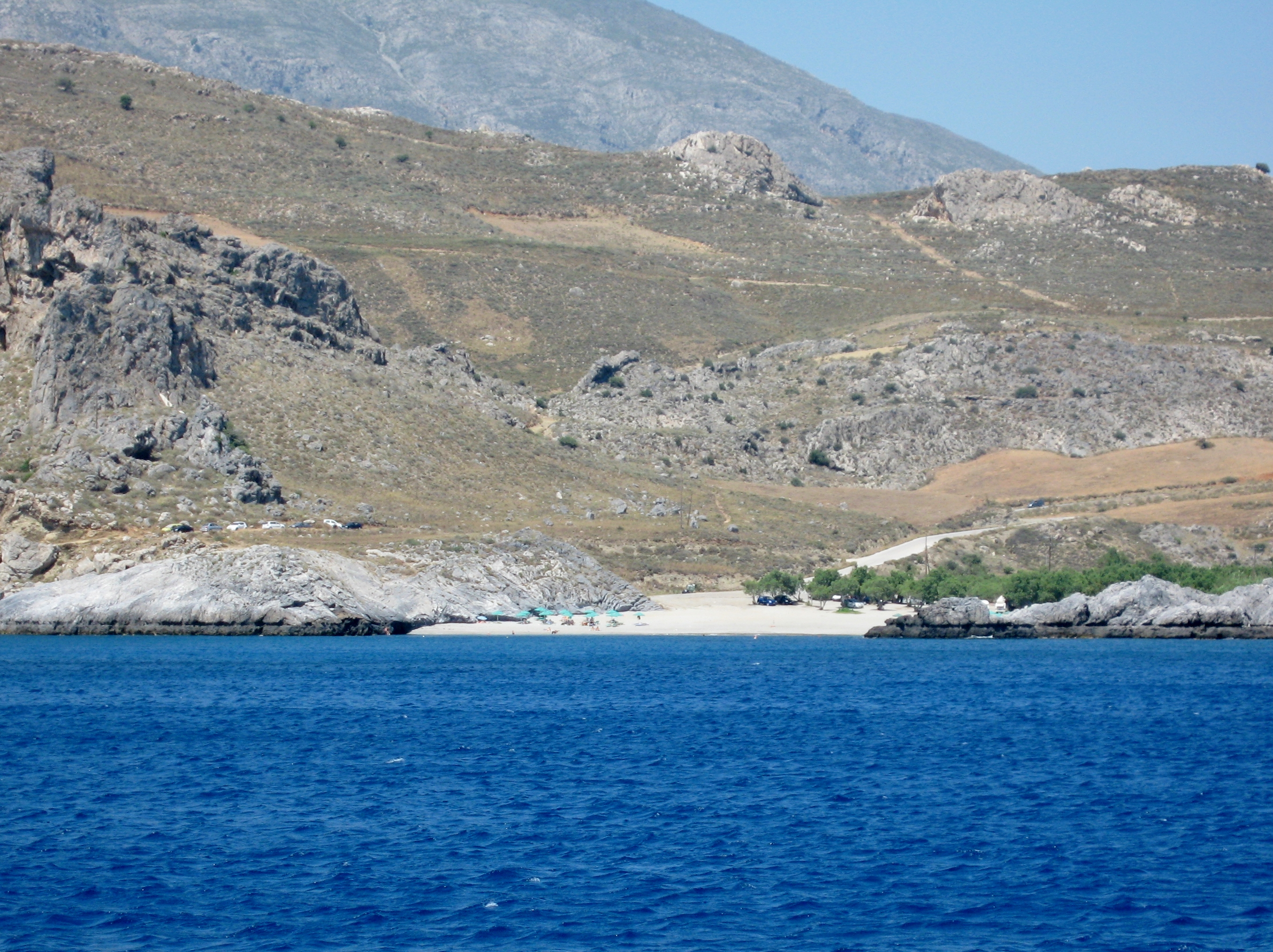 Ammoudi, Dimos Finikas, Nomos Rethymno, Crete, Greece